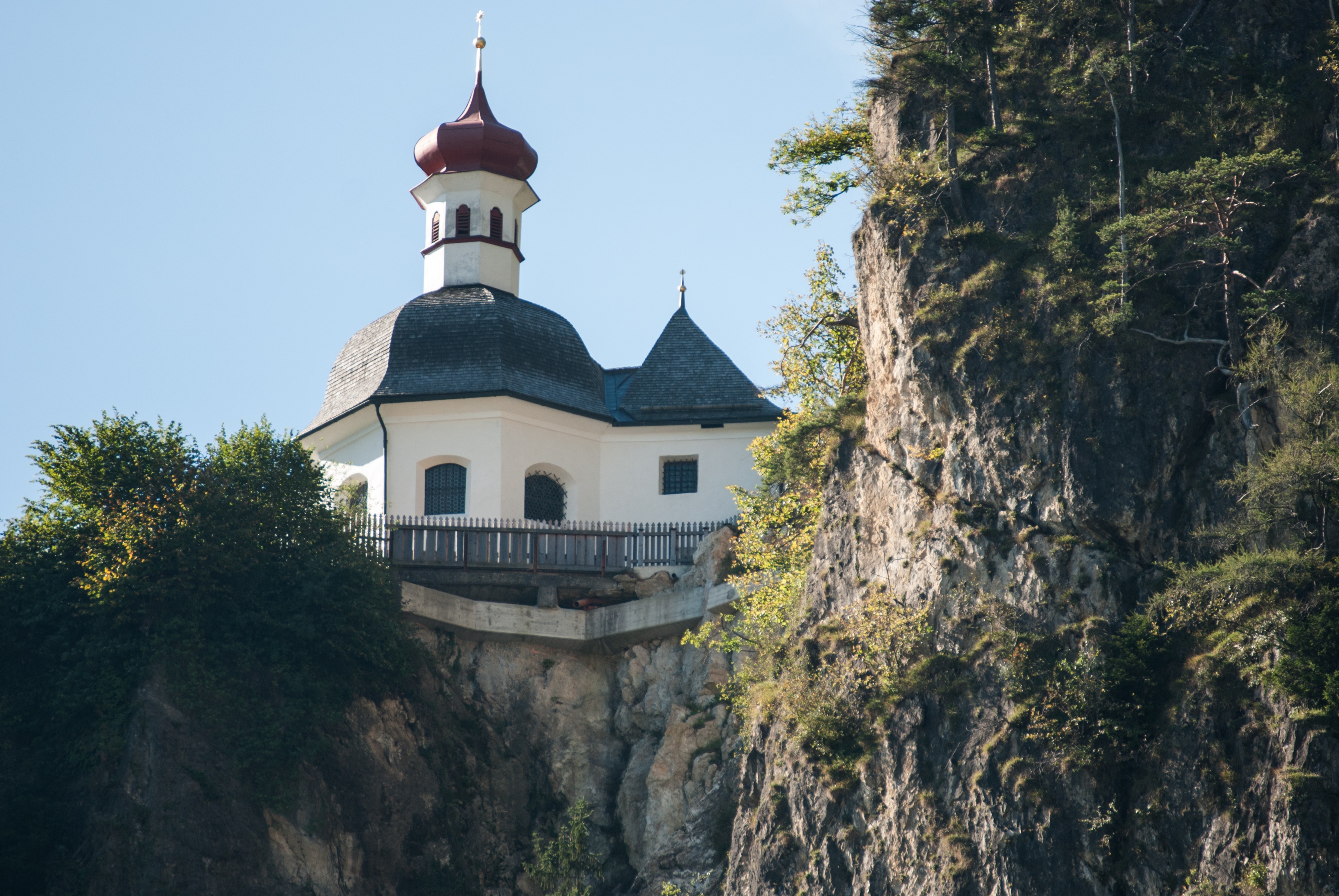 The church of Maria Brettfall from north